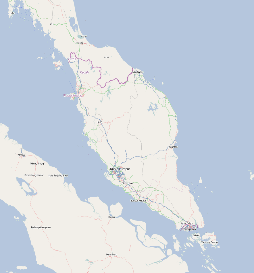 Map of Peninsula Malaysia Geographic limits of the map: N: 8.31° N S: -0.04° S W: 98.02° E E: 105.81° E